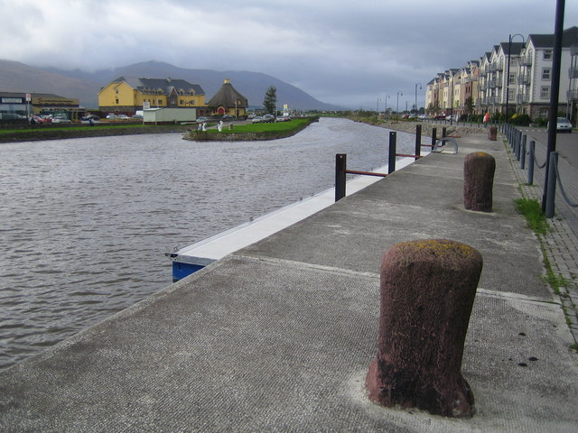 Tralee Ship Canal. Blennerville was originally the port for Tralee at the mouth of the River Lee, but the estuary suffered from heavy silting. The Canal was therefore designed and built to provide access for ships directly into Tralee avoiding Blennerville and was completed in 1846. It eventually fell into disuse around 1945, but has recently been restored with new canal-frontage housing (on the right of the photo). This view was taken from the old basin at the landward end of the canal looking in the direction of the sea. The distant peaks are the Slieve Mish Mountains on the Dingle Peninsula.